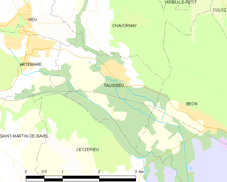 Map of French commune: Talissieu Map commune FR insee code 01415.png